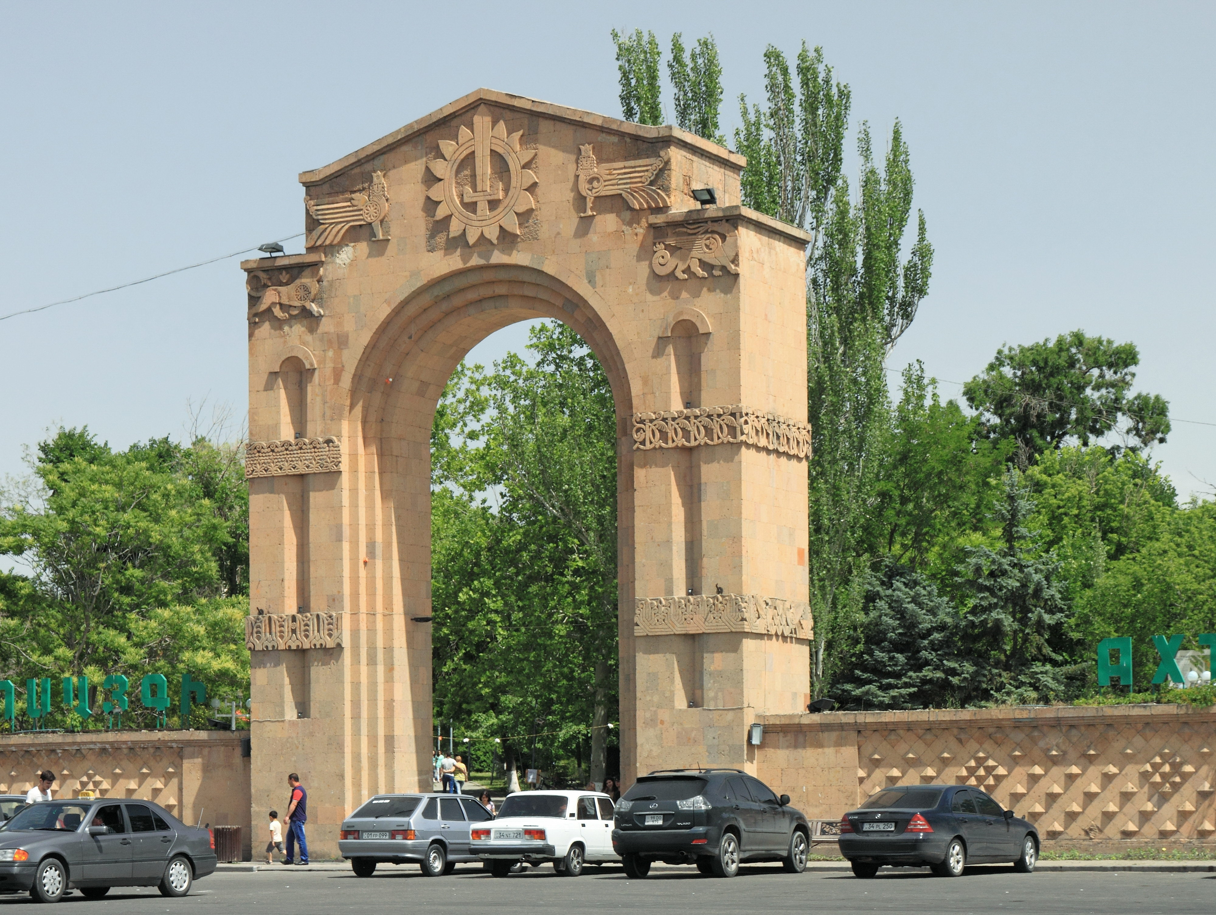 Main gate. Victory Park. Yerevan, Armenia.